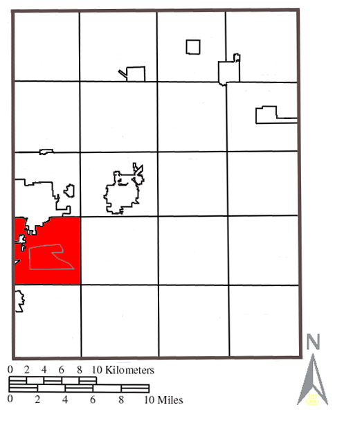 Map of Portage County, Ohio with Brimfield Township highlighted.